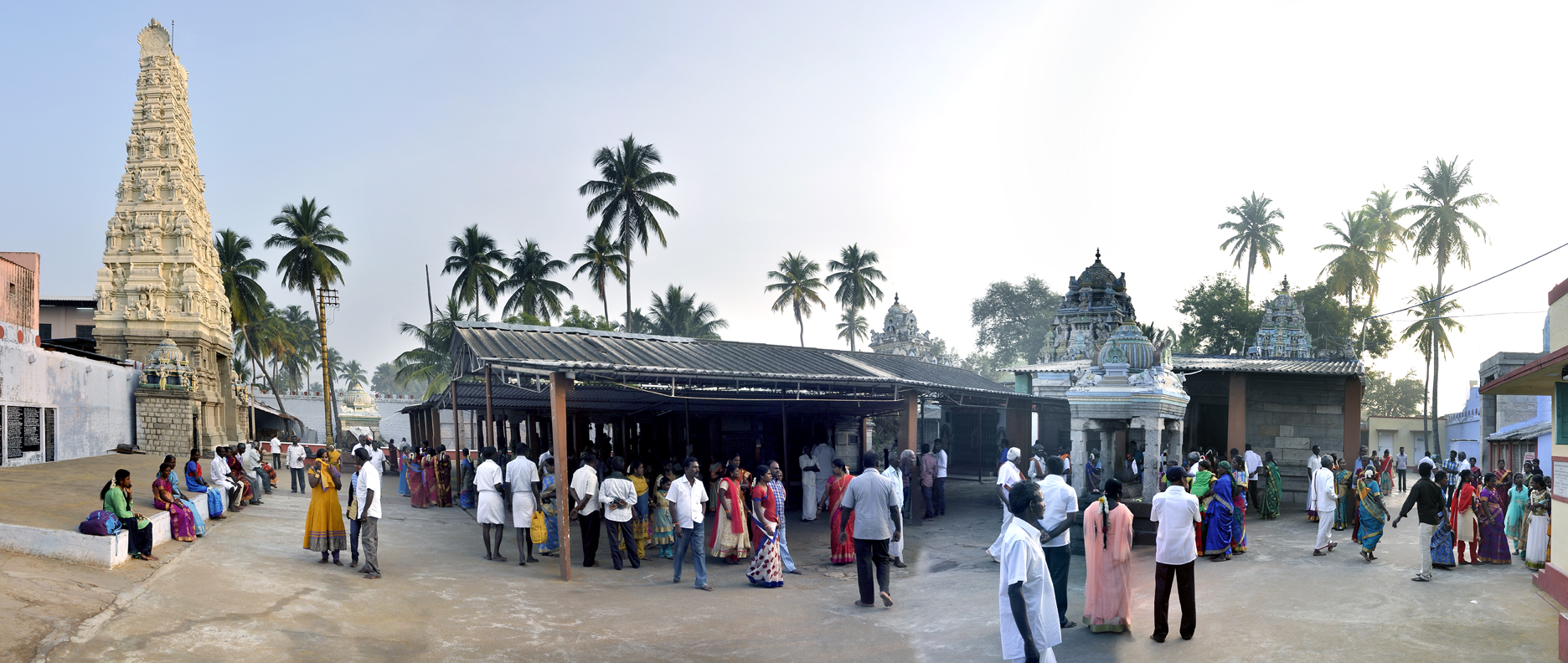 Sree Manneeshwarar Temple, Annur, Combatore